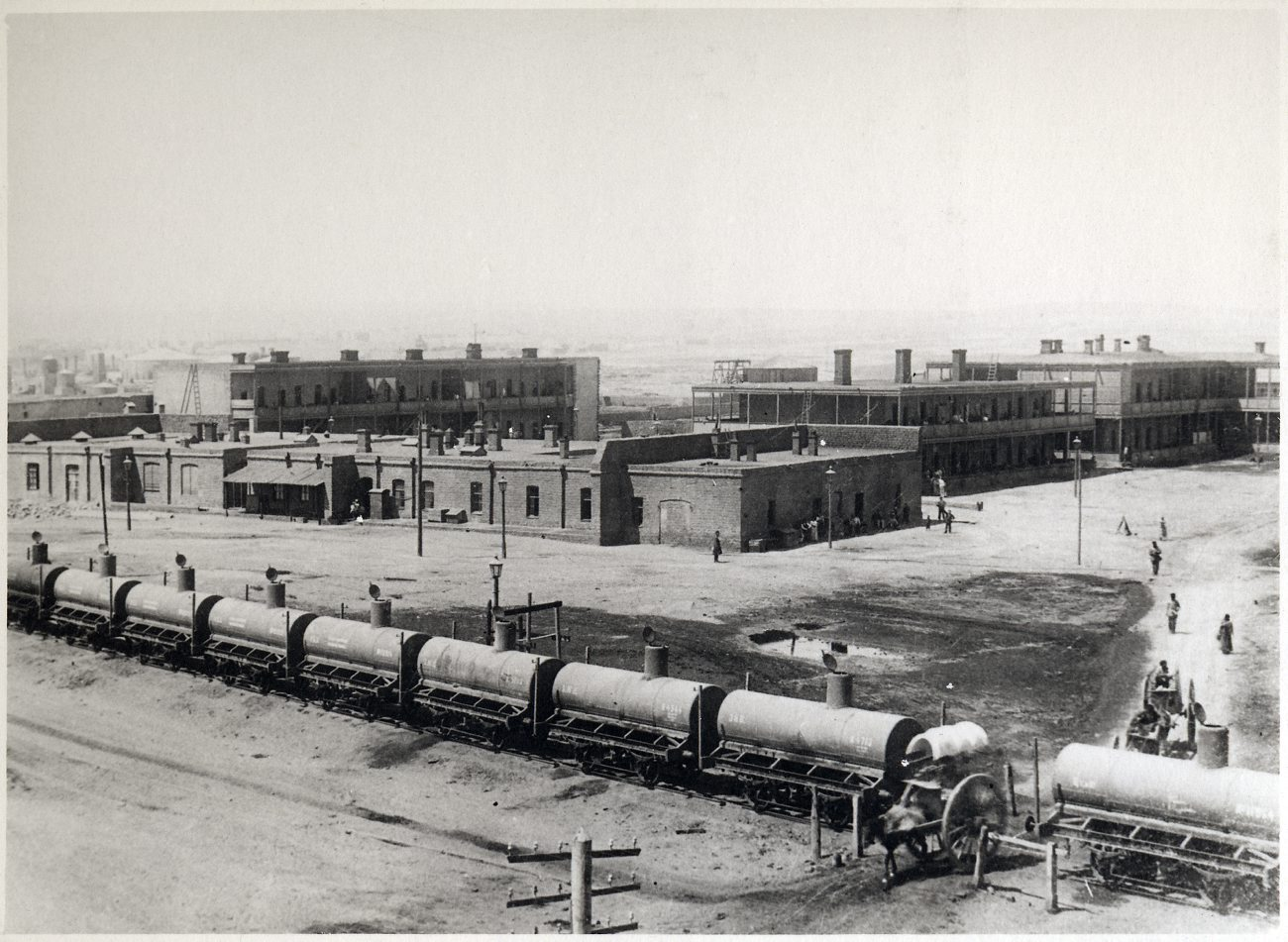 B14820. The Nobels oil facilities in Baku. The image is part of two great albums by Director Karl Wilhelm Hagelin who worked long at the Nobel oil facilities in Baku.